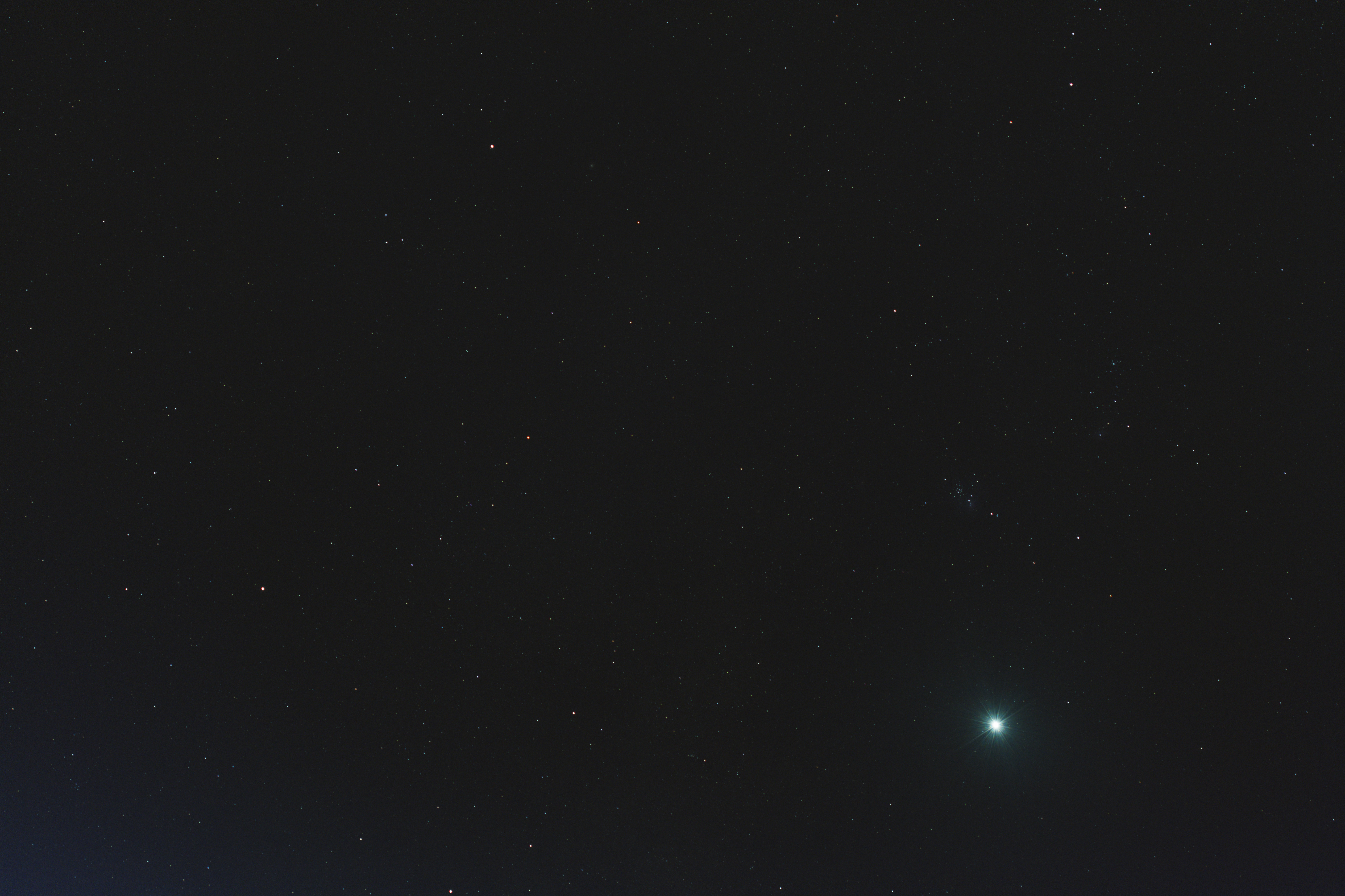 Venus and nova ASASSN-16ma during its peak brightness (stack of 60 * 2s stationary images made with DSLR and 100mm lens)